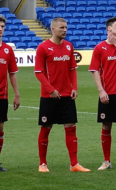 Luke Coulson playing for the Cardiff City development team in April 2014.